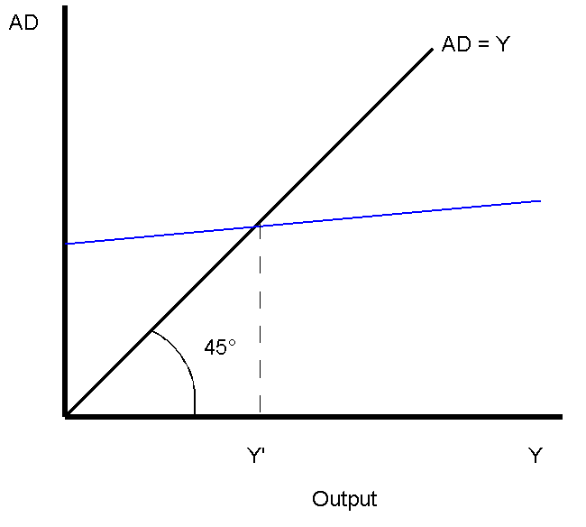 Diagram of a Keynesian cross.